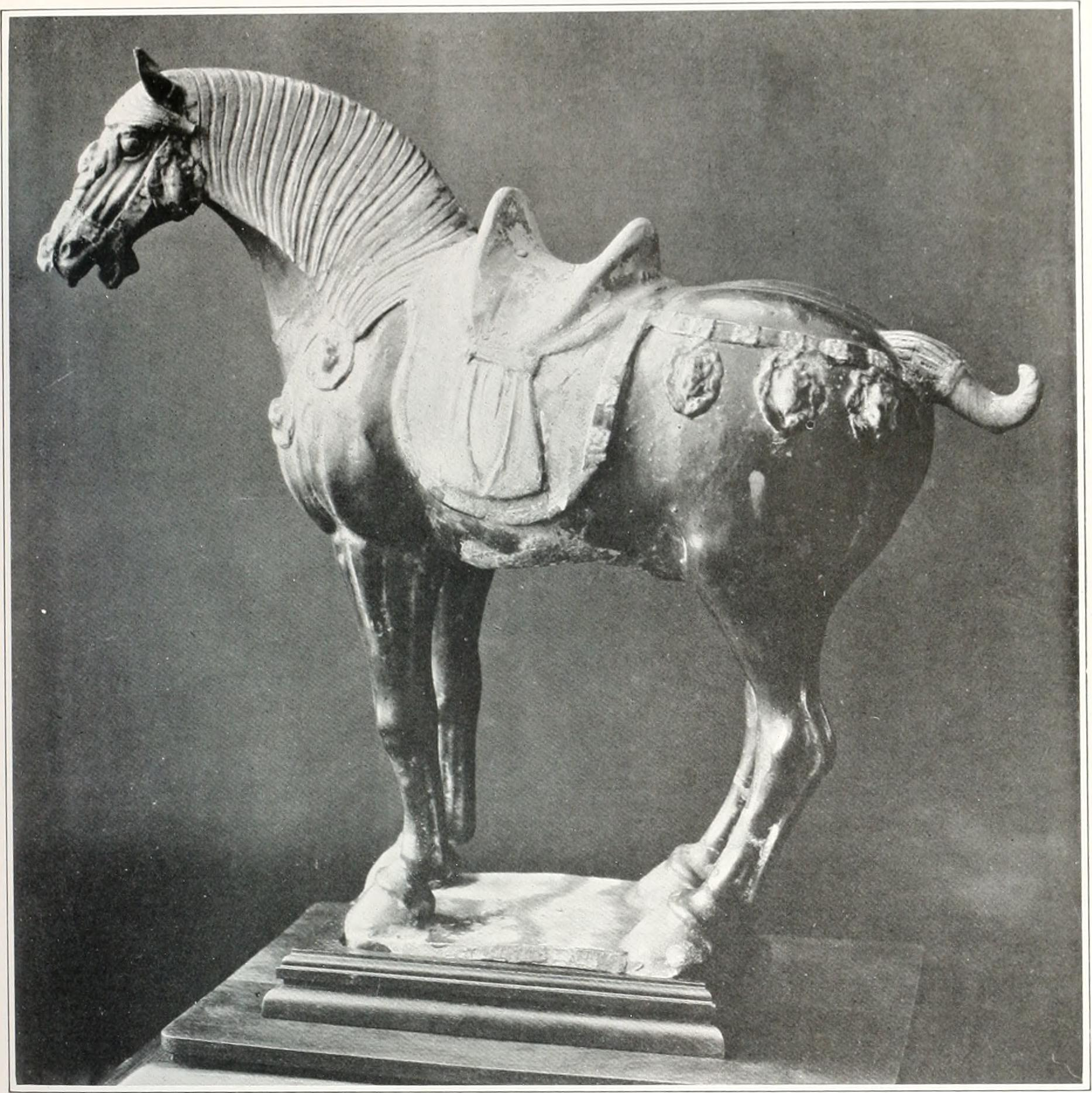 Figure of a horse in enamelled terra-cotta, Tang Dynasty Title: International studio Year: 1897 (1890s) Authors: Subjects: Art Decoration and ornament Publisher: New York Text Appearing Before Image: The ritual vase representing an owl, here repro-duced, is a very rare example of bronze art inChou style, (1122-255 B. C.) and is of surprisingapplication and expression. The first Chinesecarvings of which we have specimens were bas-reliefs on slabs in hard stone forming the innerwalls of the sepulchres of personages of highstanding. They are keenly sought after and theCernuschi Museum owns some of great interest.They represent alternately mythological scenes, historical events and FIGURE OF A RABBIT . . ■ porcelain : sung dvnasty ceremonials, hunting (Collection oj Mme. Langweil) Scenes Or SCeneS of four eighteen AUGUST 1922 inceRnACionAL Text Appearing After Image: battle and comprise all kinds F,GURE OF A HORS? IN ENAMELLED genius for sculpture. Writing Lid l lie, till lac an mu TERRA-COTTA : T ANG DYNASTY of animals, but particularly tCo„ec(ion oJ ComU d-AndienS) on the subject in an important horses, which play so important French standard work, ana part in the life of warriors and in feudal times, authority assigned these eight words to it: Laexecuted with wonderful elegance and vigor. sculpture vraiment chinoise, eest le magot andBut these bas-reliefs are not exclusively repre- no more. Yet-the beautiful sculptures repre-sentative of Han sculpture, for the round was senting elephants, camels, horses and warriorsalso practiced. The beautiful ram lent by Mr. Loo which have been mounting guard over the tombsshows sufficiently what magnificent artists the of the Ming Emperors these last five hundredChinese were at this period. Its style and power years, never were buried and are at least familiarare extraordinary and may be put on a line with